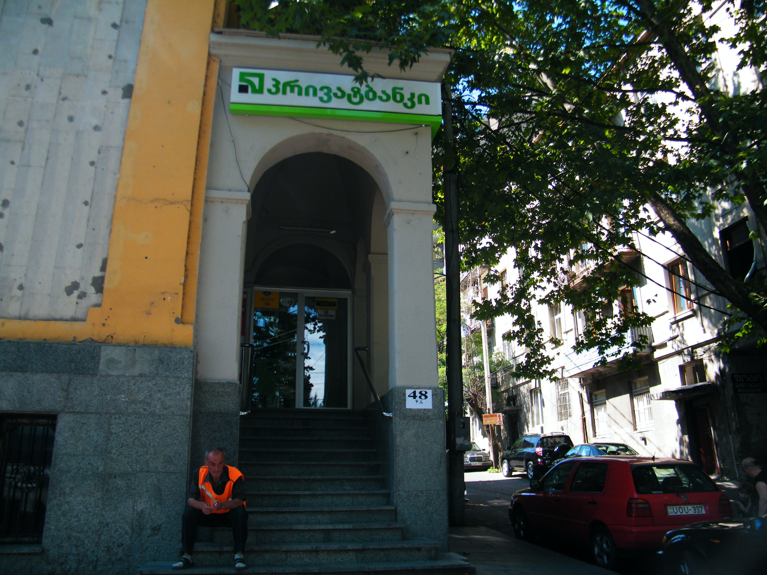 PrivatBank in Tbilisi